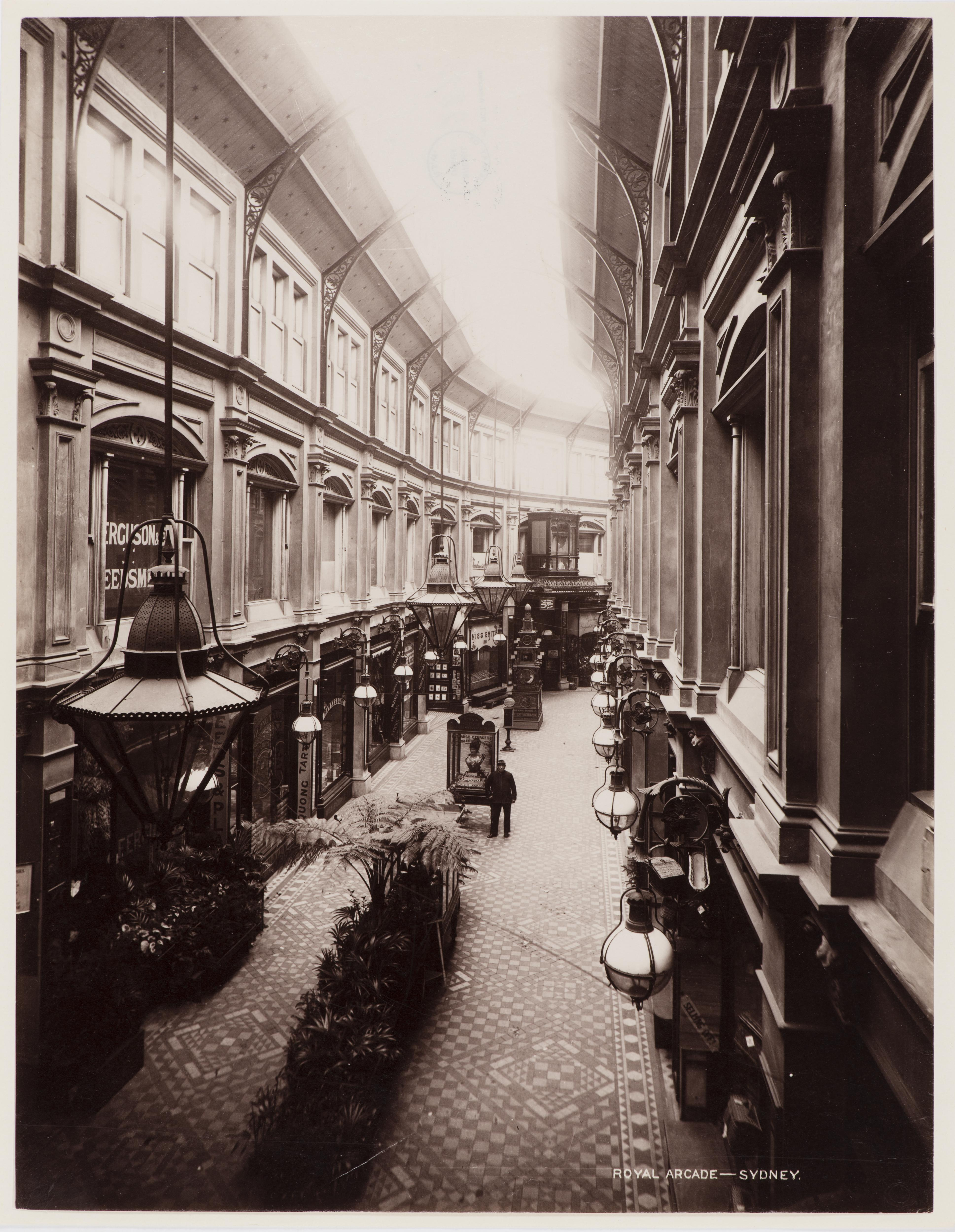 Format: Albumen photoprint Notes: The Royal Arcade ran from George Street near the markets, through to Pitt Street, near the School of Arts. Over 90 metres long, it was well lit, with a lofty celestory and gas lamps. There were 31 shops on the ground floor, 36 offices on the first floor and a photographic studio above them at the George Street end. Of Sydney’s five Victorian arcades, only the Strand survived twentieth century development, the Royal disappearing beneath the Hilton Hotel in the mid 1970s.